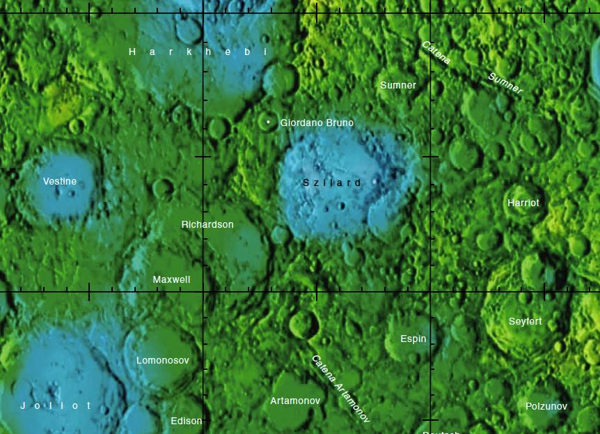 Part of the USGS Moon far side chart.